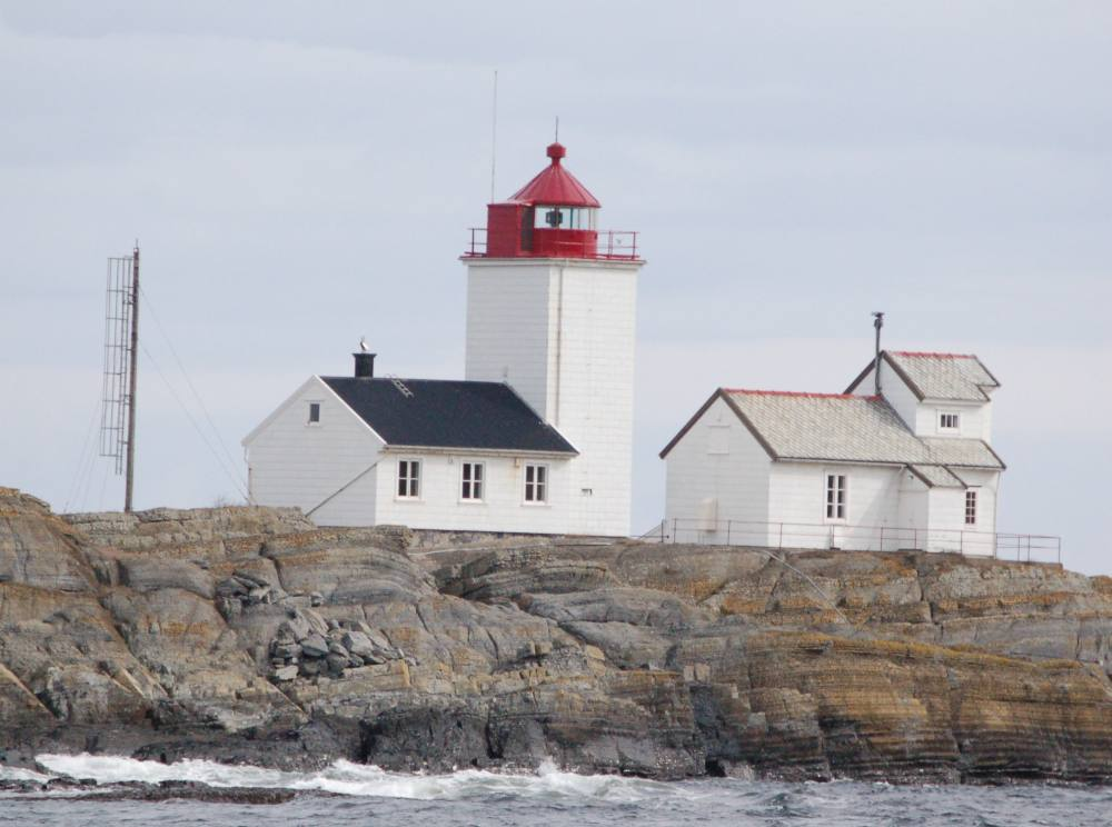 Langøytangen fyr, Langesund, Norway, seen from the north